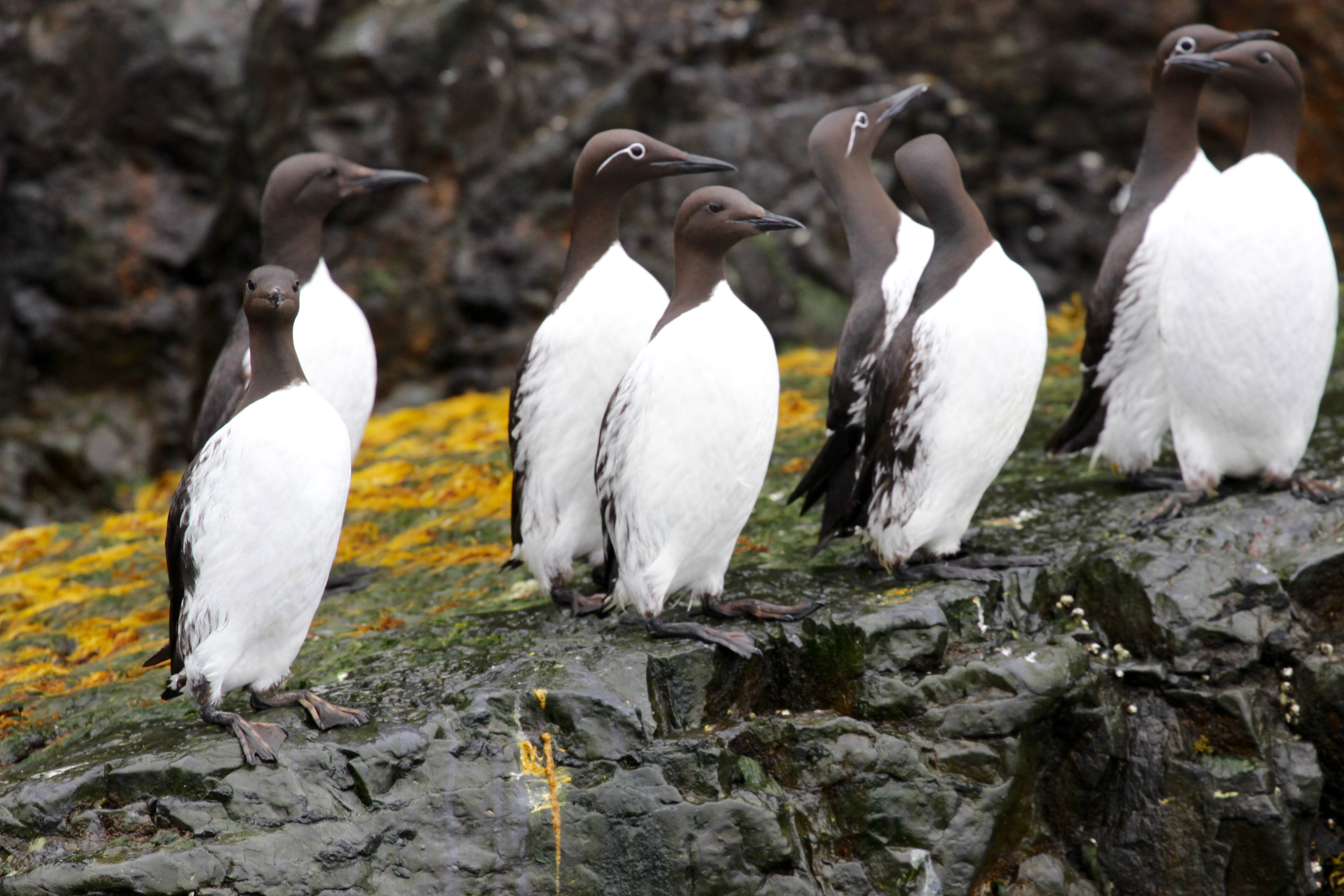 Pictures taken on my Silversea Silver Explorer Arctic cruise. For more on the cruise and dates visit bit.ly/ArcticCruise